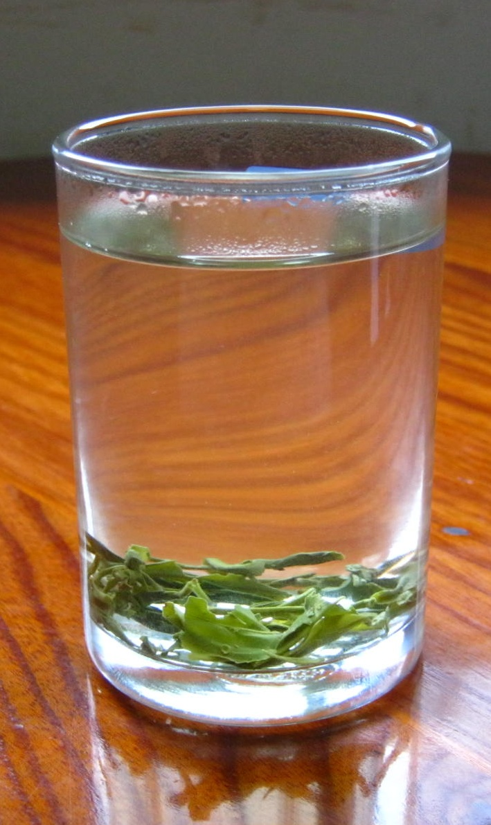 HuangShan MaoFeng (黄山毛峰） produced by 天方茶业。